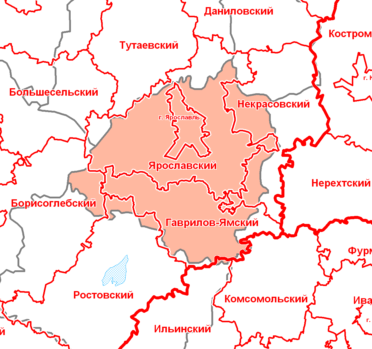 Maps of Yaroslavl Governorate